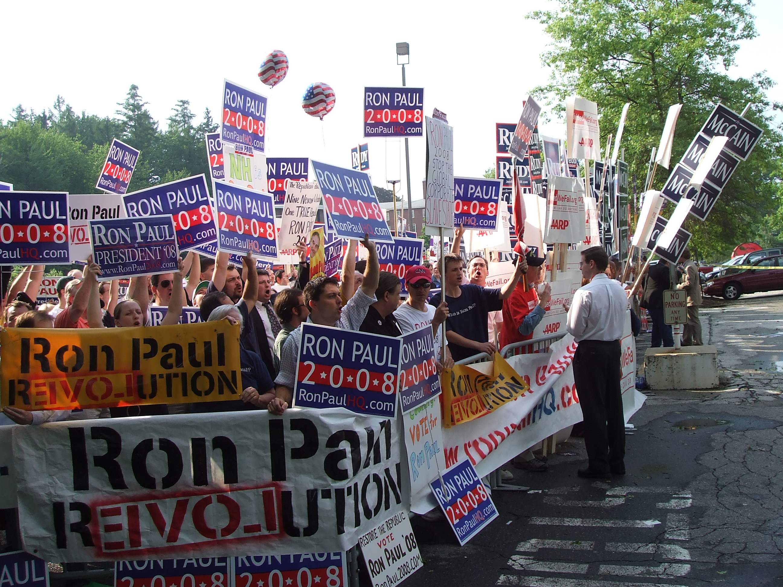 This picture of Ron Paul supporters at a Manchester rally prior to the 5 June 2007 GOP debate was taken by me and is hereby released into the public domain. DickClarkMises 14:49, 19 June 2007 (UTC)